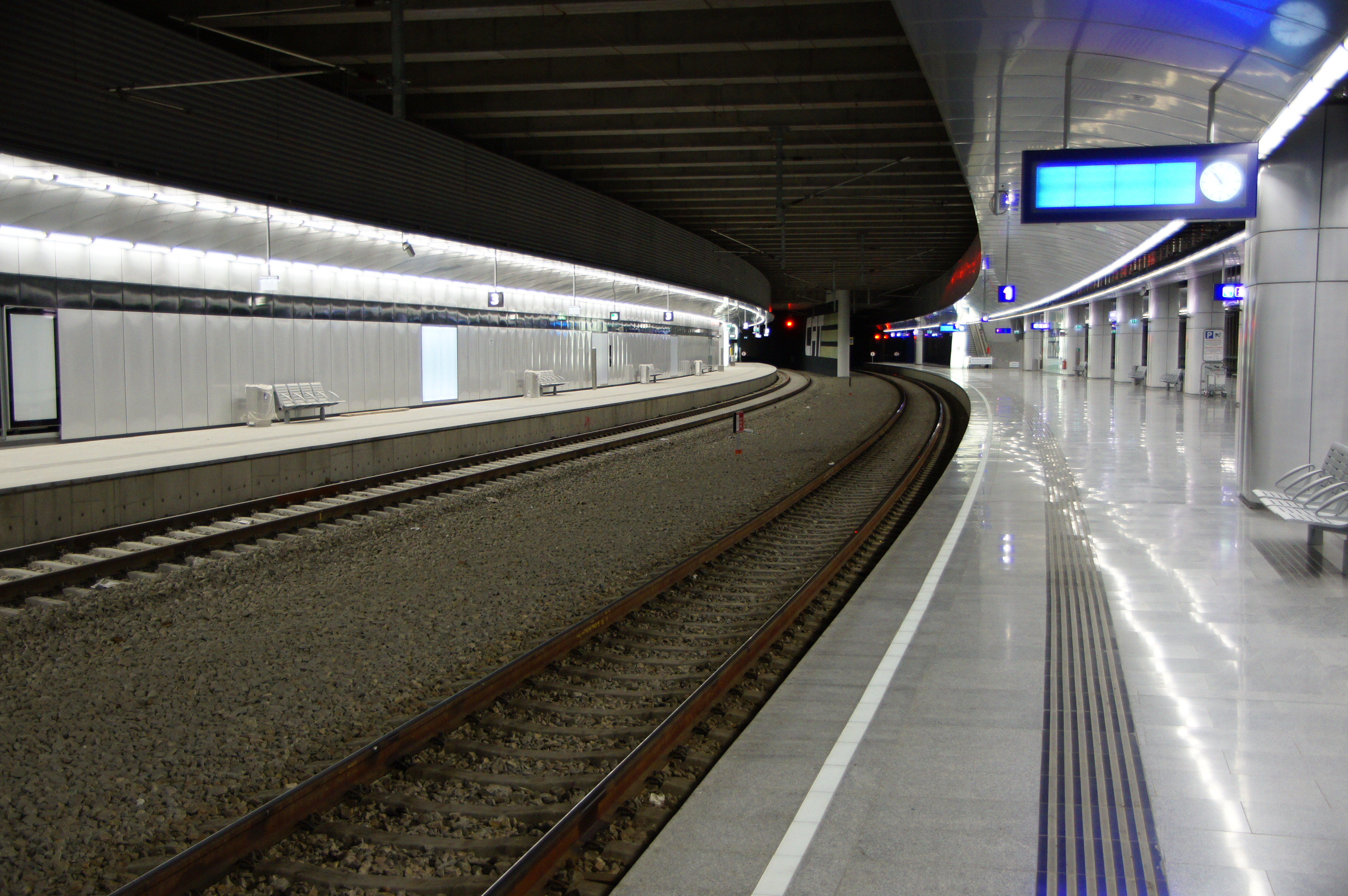 trainstation